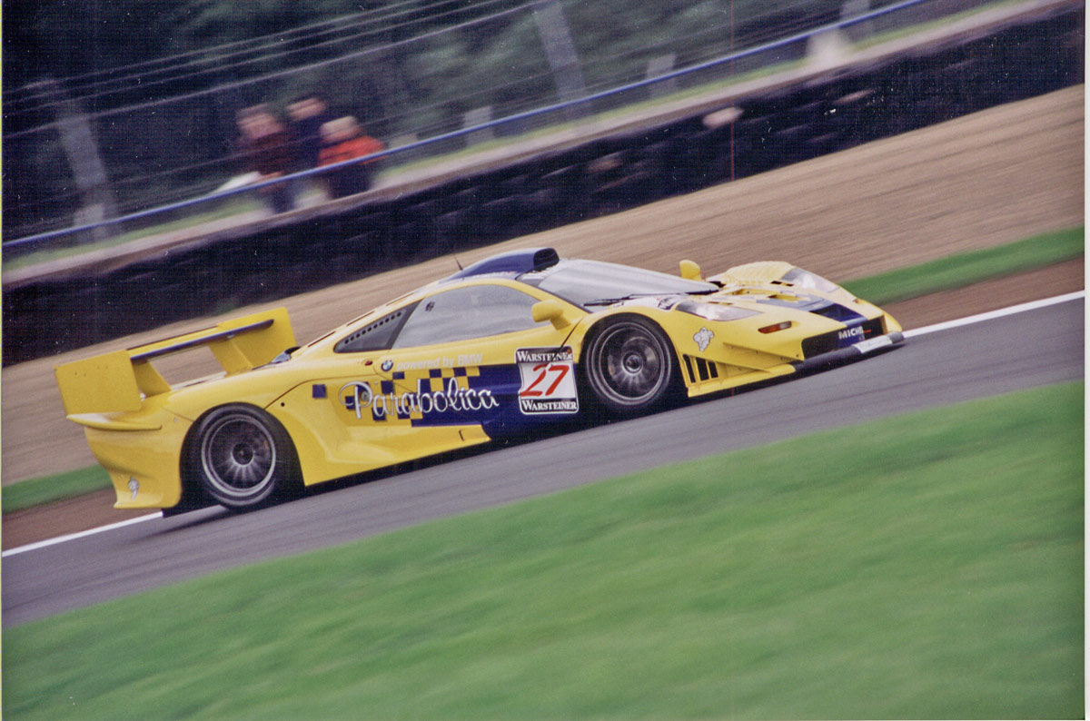 Gary Ayles Parabolica McLaren F1 Donnington 12.9.1997